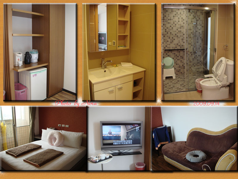 The interior of a medical clinic located in Lantian county in Xi'an that provides the service of zuoyuezi rest (also known as confinement and 坐月子) for women who gave birth.